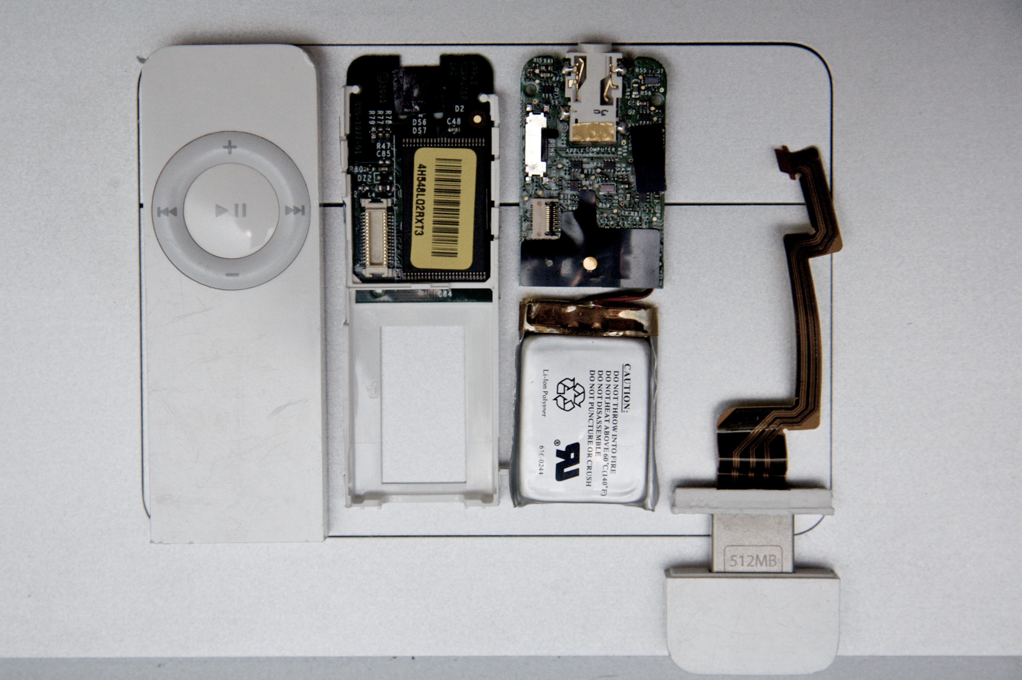 I put it back together. It's still broken.